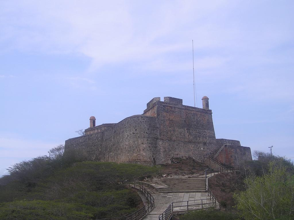 Solano Castle, Puerto Cabello, Venezuela